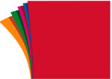 Logo of FLC